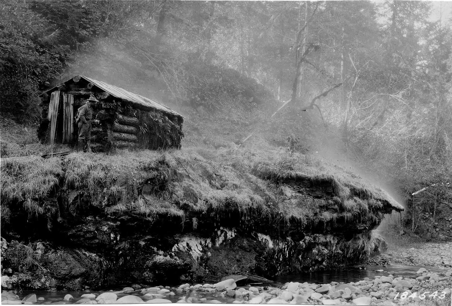 A sweat house on the Mansfield property in 1899. This site is now adjacent the Breitenbush hydroelectric power house, and provides much of the mineral water delivered to the retreat and conference center's meadow pools.